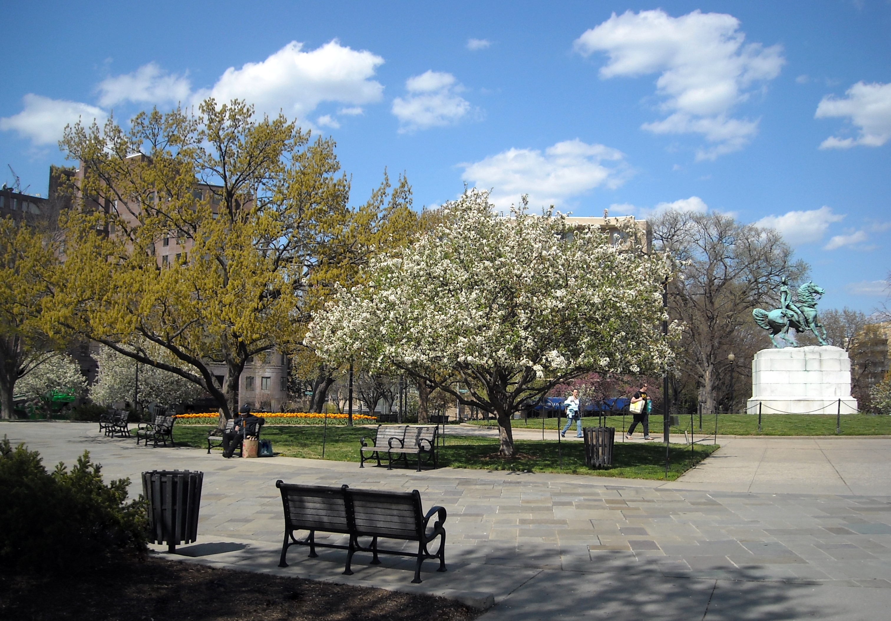 The southwest corner of Washington Circle, a traffic circle and public park, located on the boundary of the Foggy Bottom and West End neighborhoods in Washington, D.C. The equestrian statue of George Washington is visible on the far right.